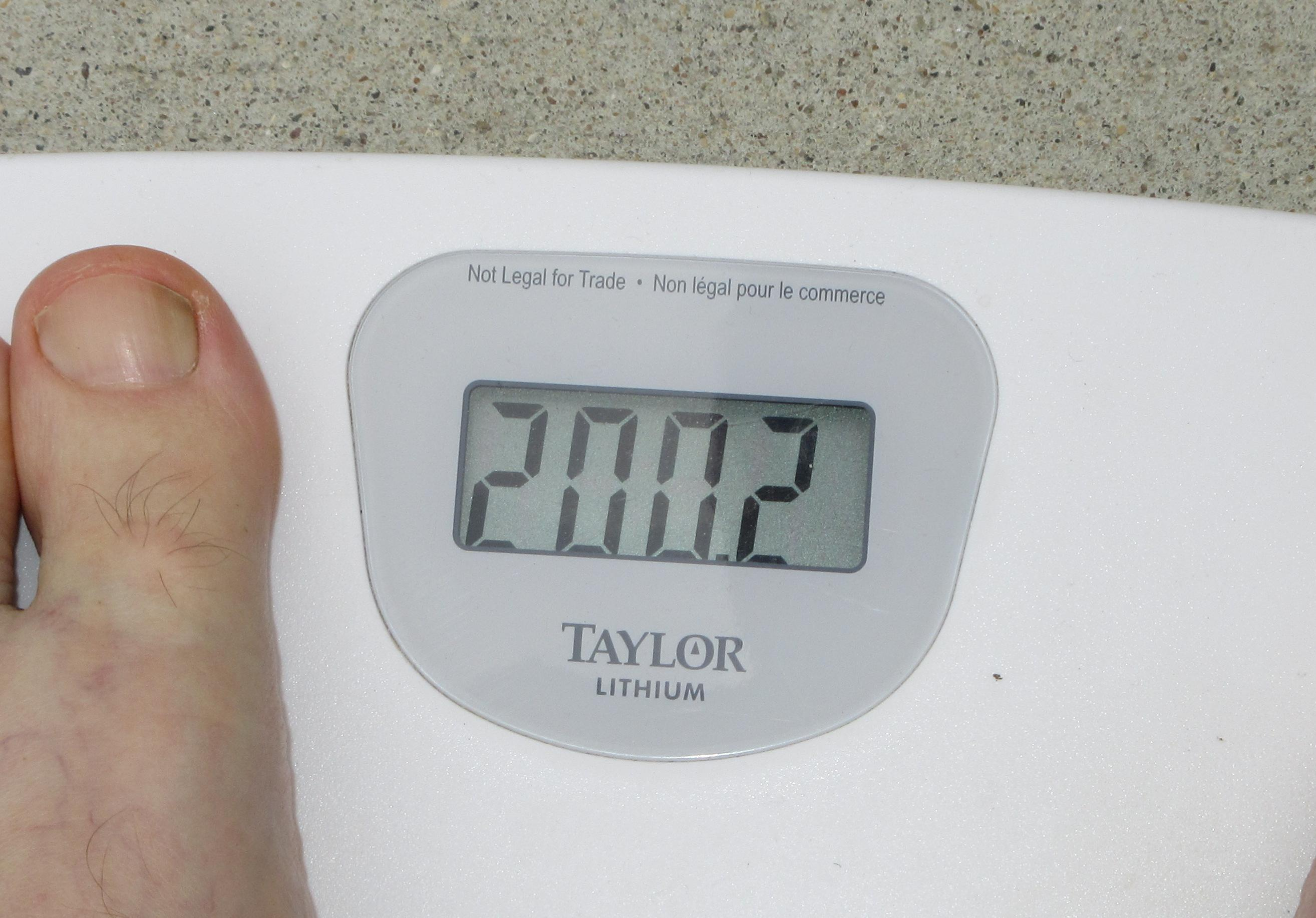 Illustration of the least count concept in a household scale. While the display may lead the user to think the scale can report weight changes of 0.1 lbs, the scale can only resolve increments of 0.2 lbs - it's least count is 0.2.